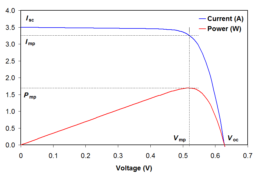 Solar cell I-V and P-V curves.